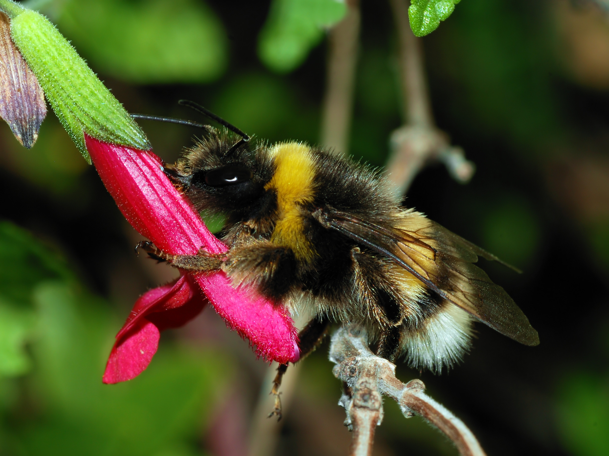 Worker buff-tailed bumblebee (Bombus terrestris) Camera: Nikon D80, Tokina 100mm macro Exposure: manual exposure. F/20, 1/125, ISO 100